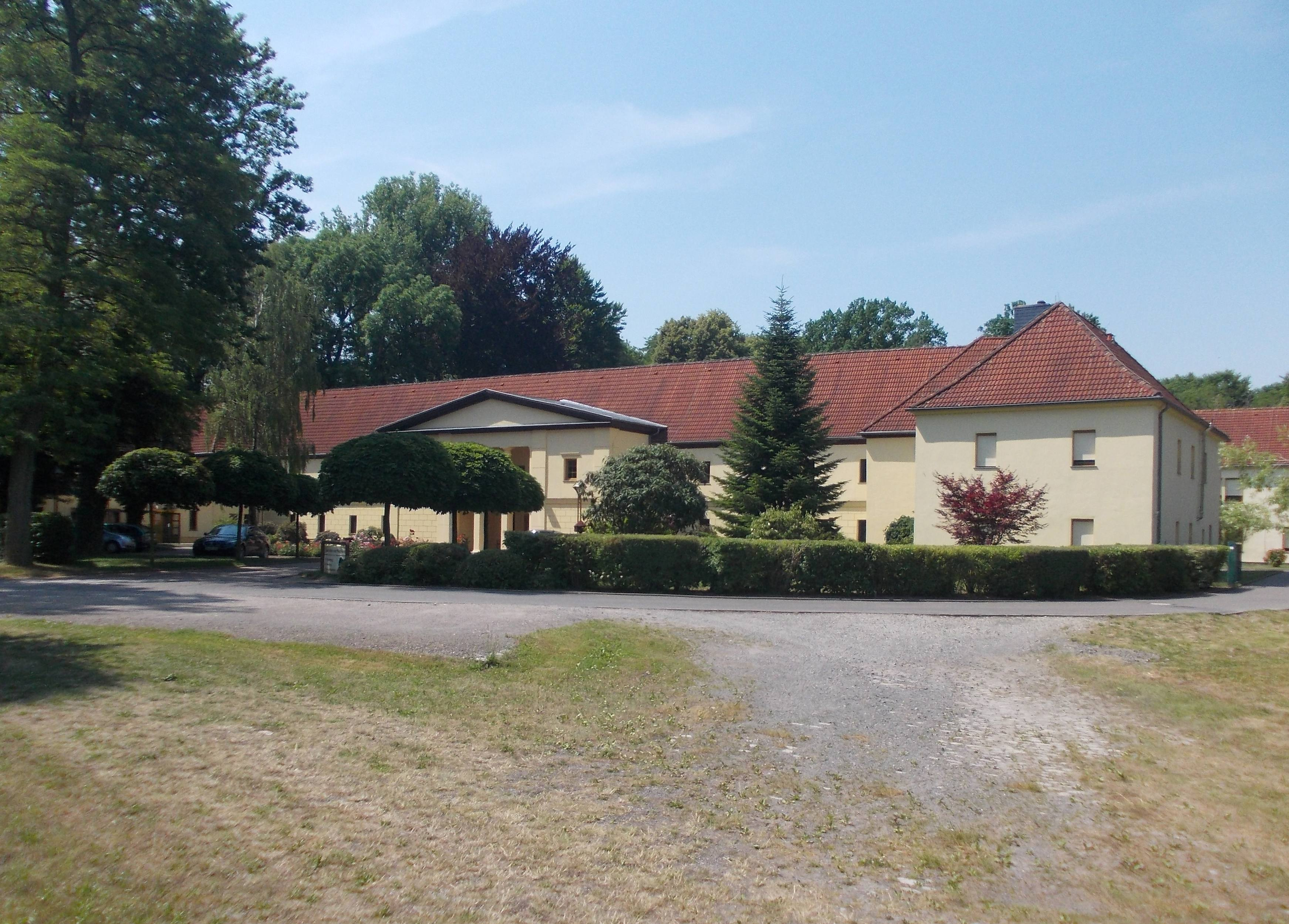 Bedra Castle (Braunsbedra, district: Saalekreis, Saxony-Anhalt)